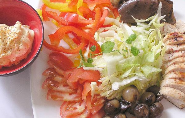 Typical Atkins diet meal